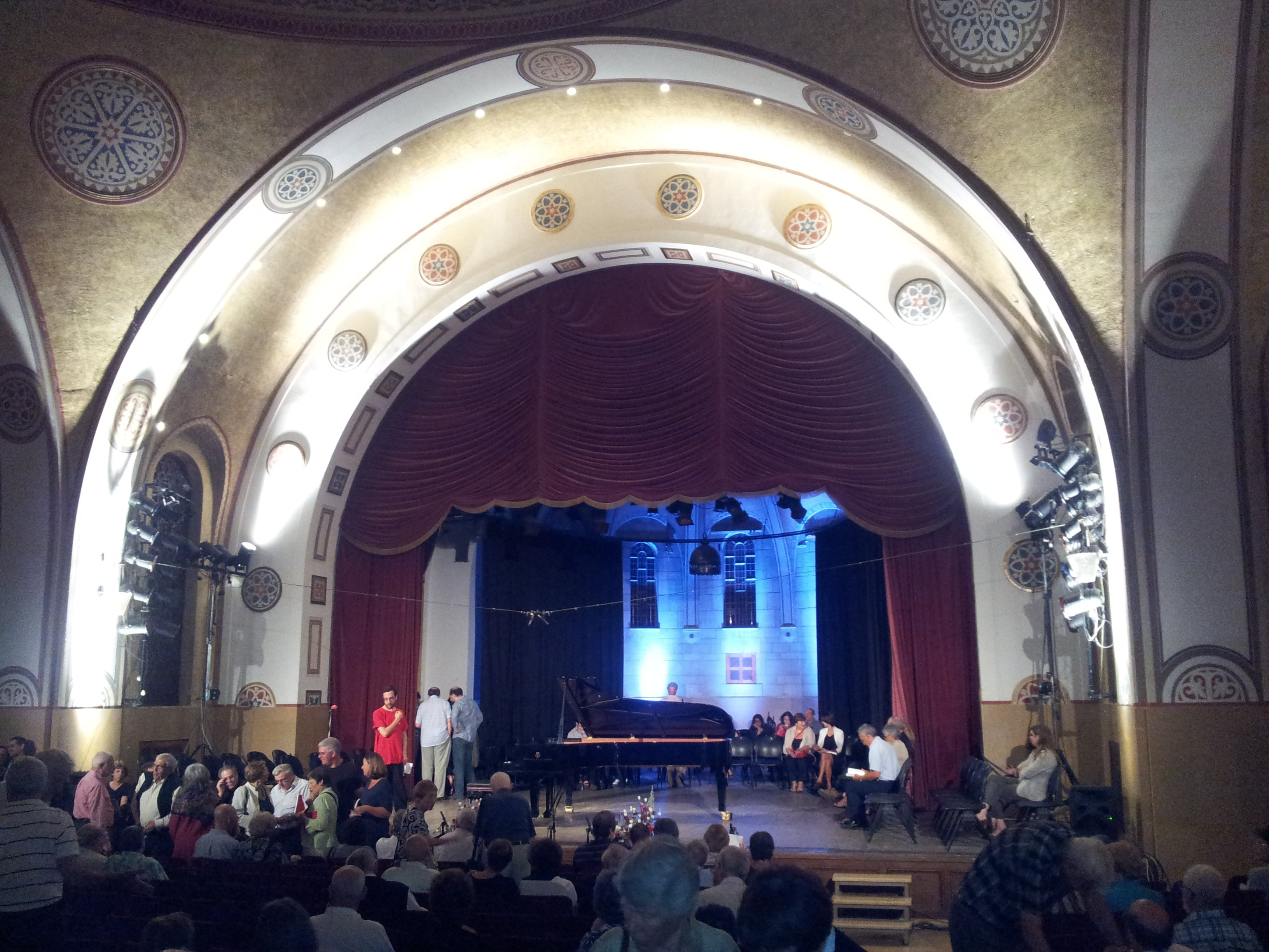 YMCA concerts hall